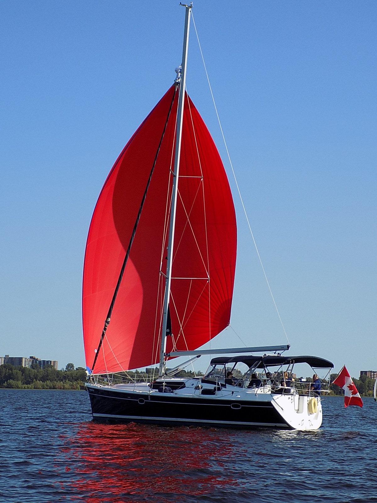 A Hunter 45 DS sailboat with spinnaker flying on Lac Deschênes, part of the Ottawa River, Ottawa, Ontario, Canada.